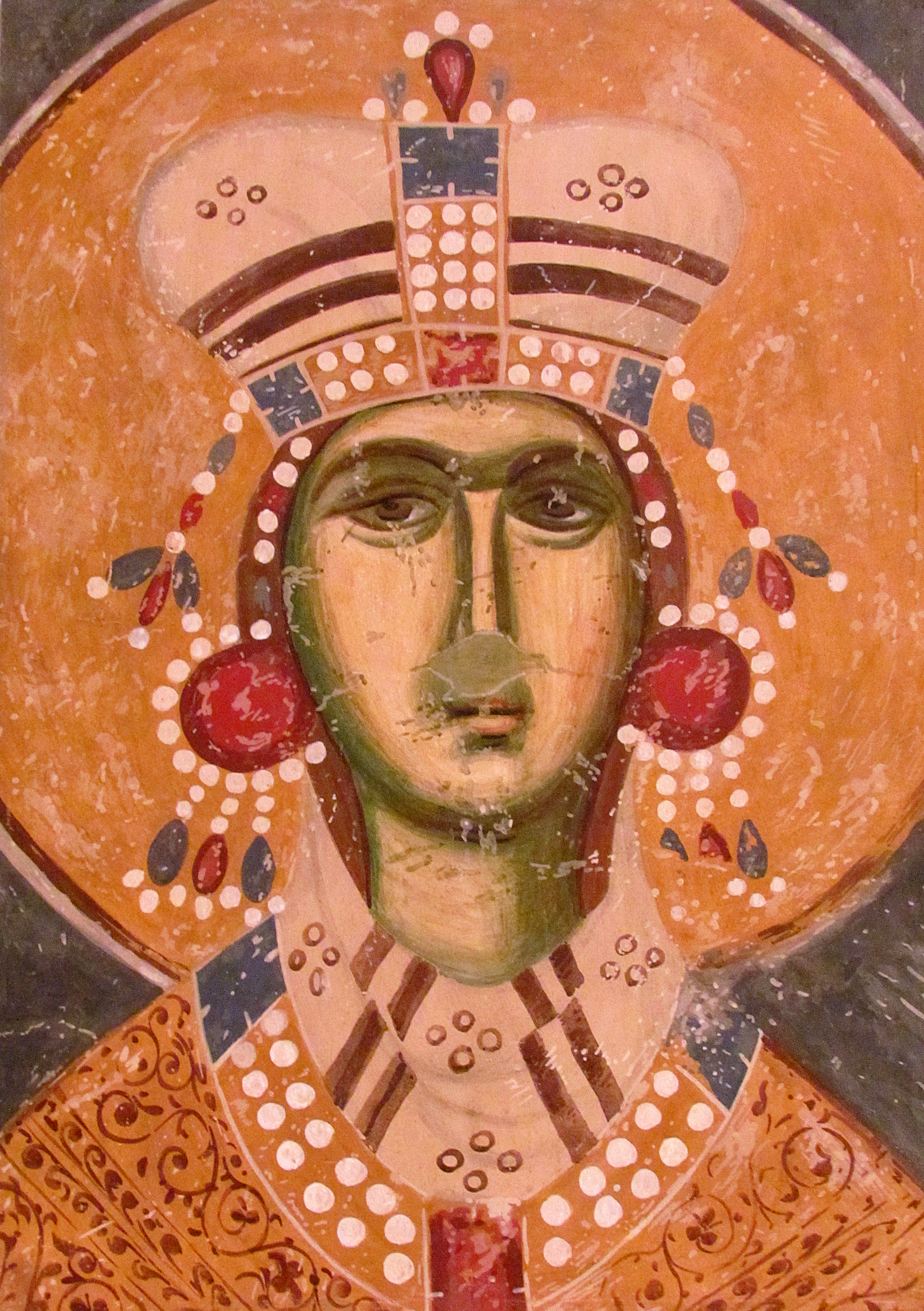 St. Barbara, Fresco in church of the Virgin Ljeviska, Prizren, 1310-14, Serbia